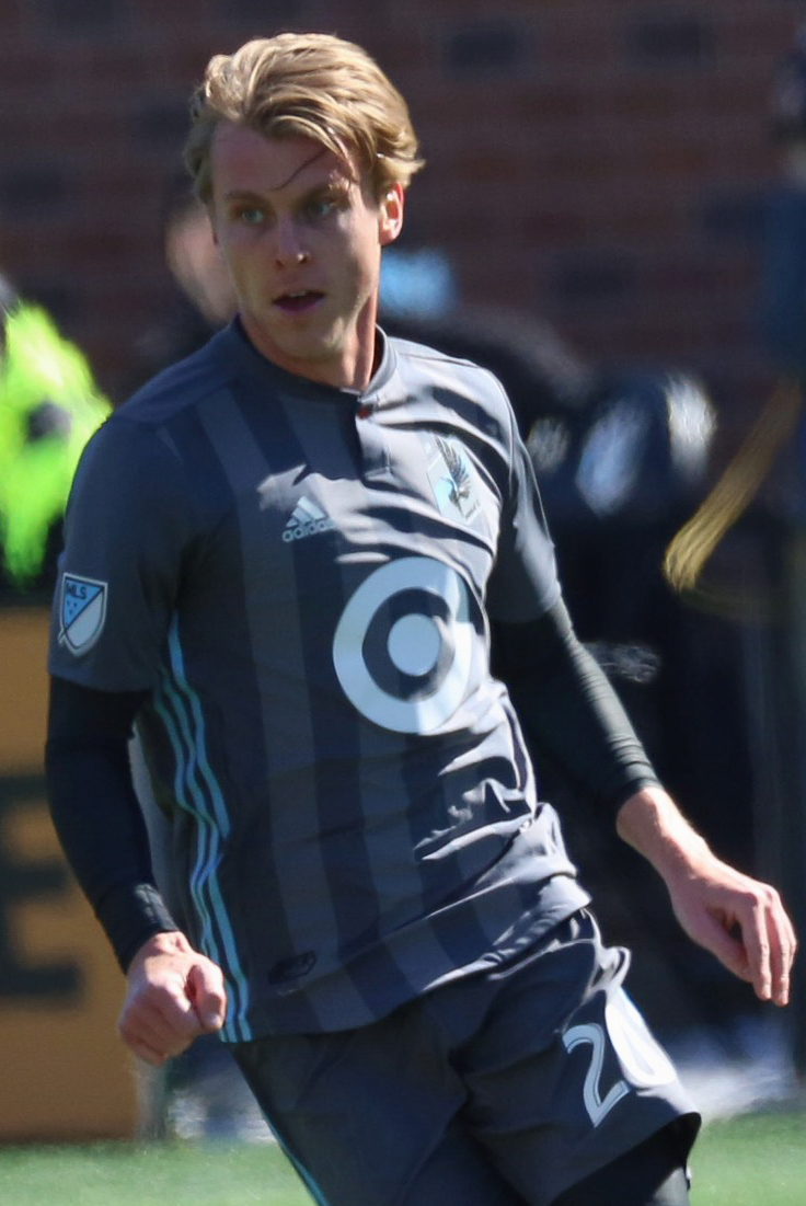 Rasmus Schuller - MNUFC - Minnesota United v Chicago Fire TCF Bank Stadium